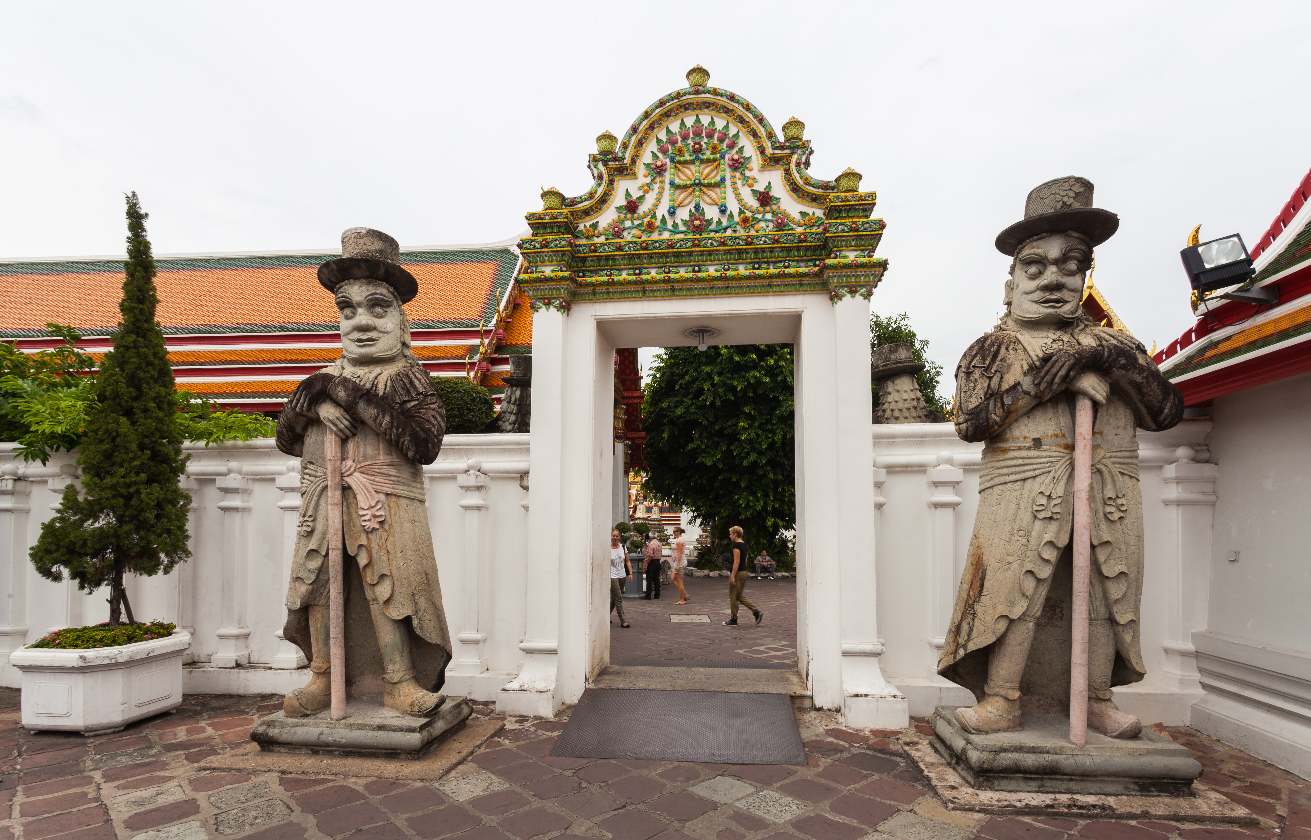 Wat Pho temple, Bangkok, Thailand